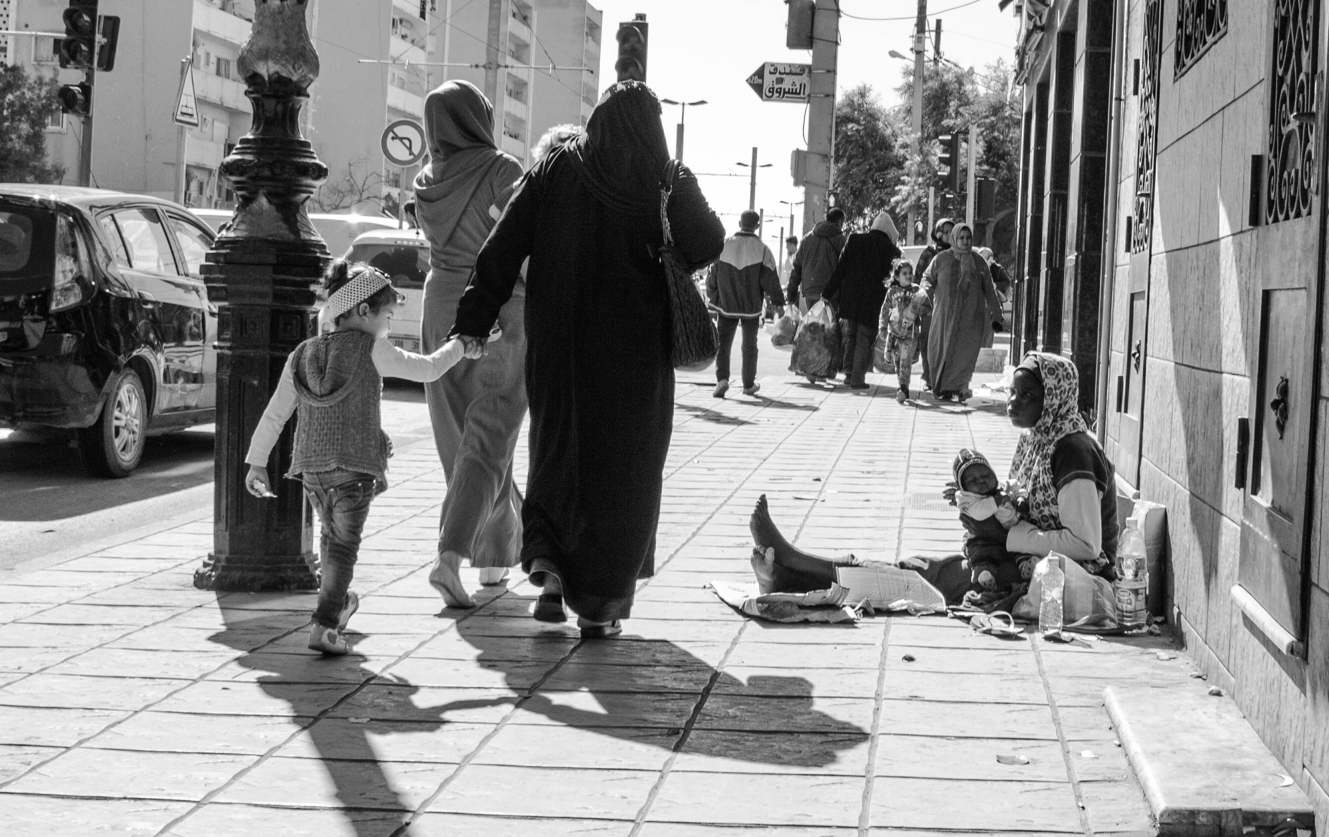 mother with her baby look for money in the street .this mom may be come from Nigeria .. this picture was taken in Algeria This is an image of "African people at work" from Algeria